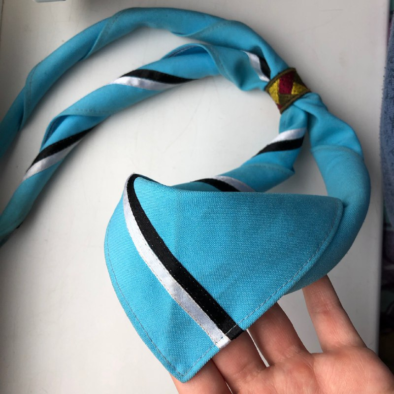 scout scarf